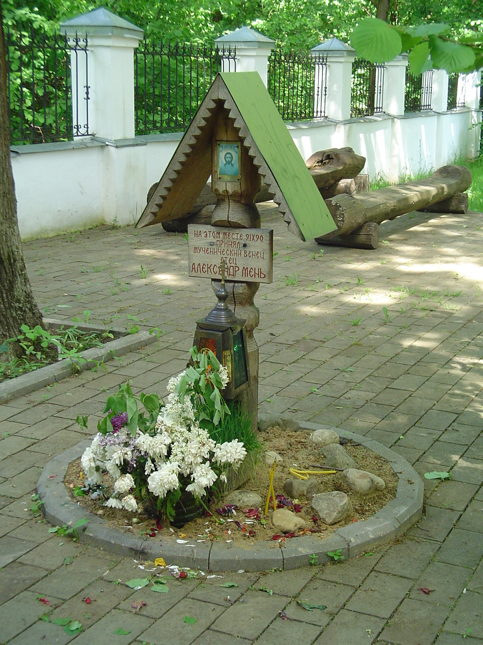 Alexander Men memorial cross in Semkhoz near Sergiev Posad